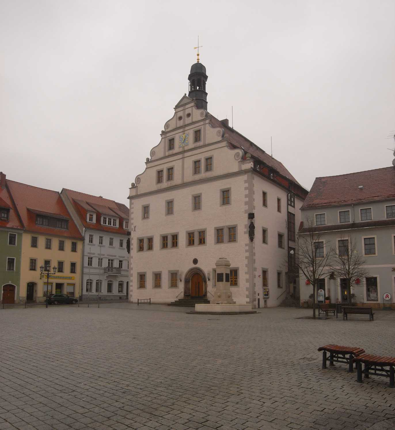 Dippoldiswalde, old town hall (late 15. century)